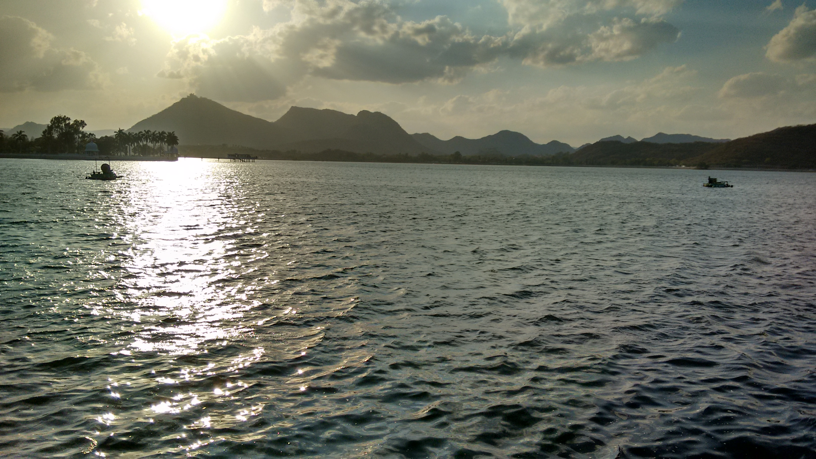 Fateh Sagar Lake is situated in the city of Udaipur in the Indian state of Rajasthan. It is an artificial lake .